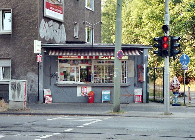 from created by Benutzer:Markus Schweiß (see also Bild:Kiosk01.jpg), cropped by Rainer Zenz